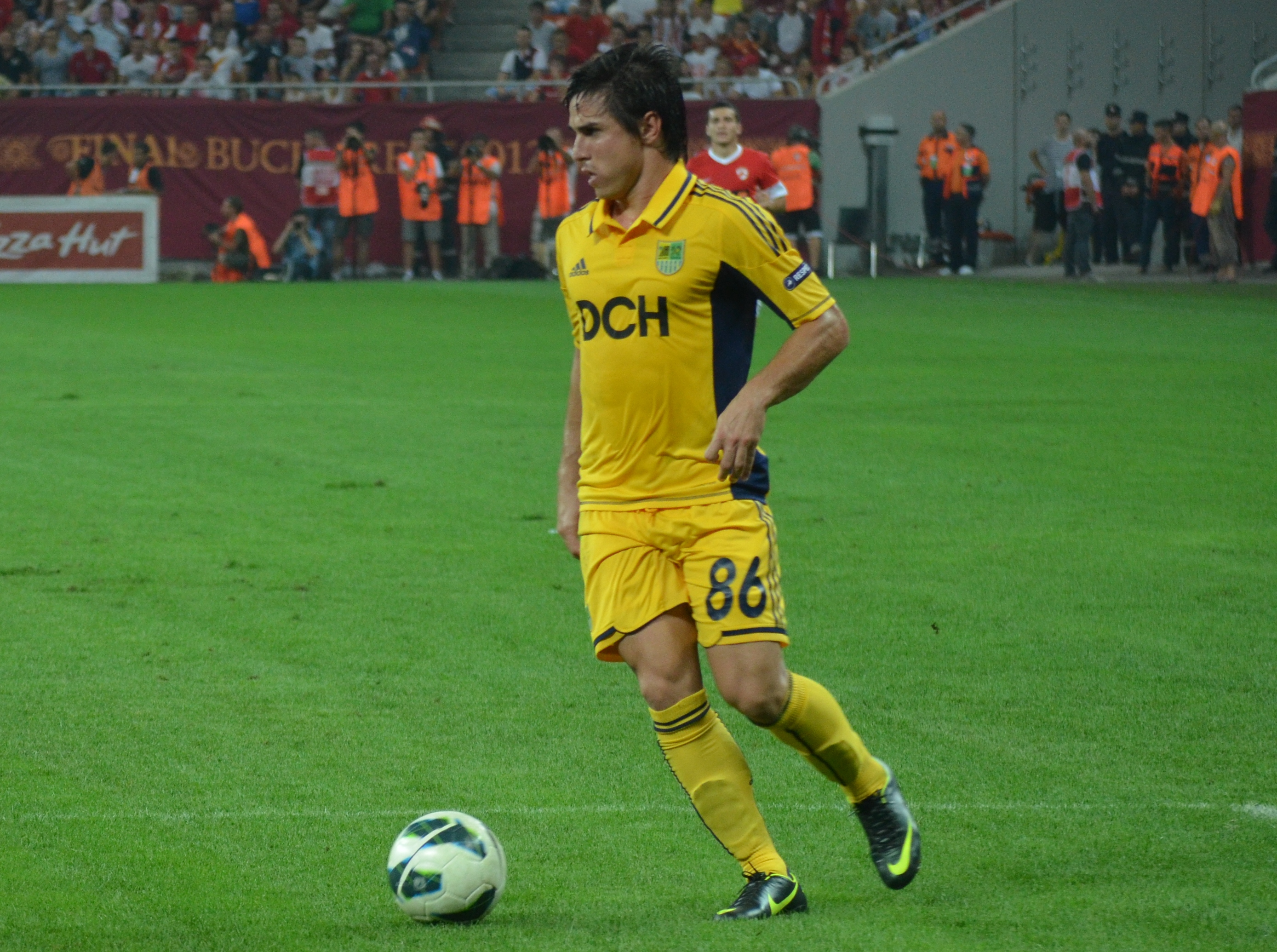 Willian playing against Dinamo